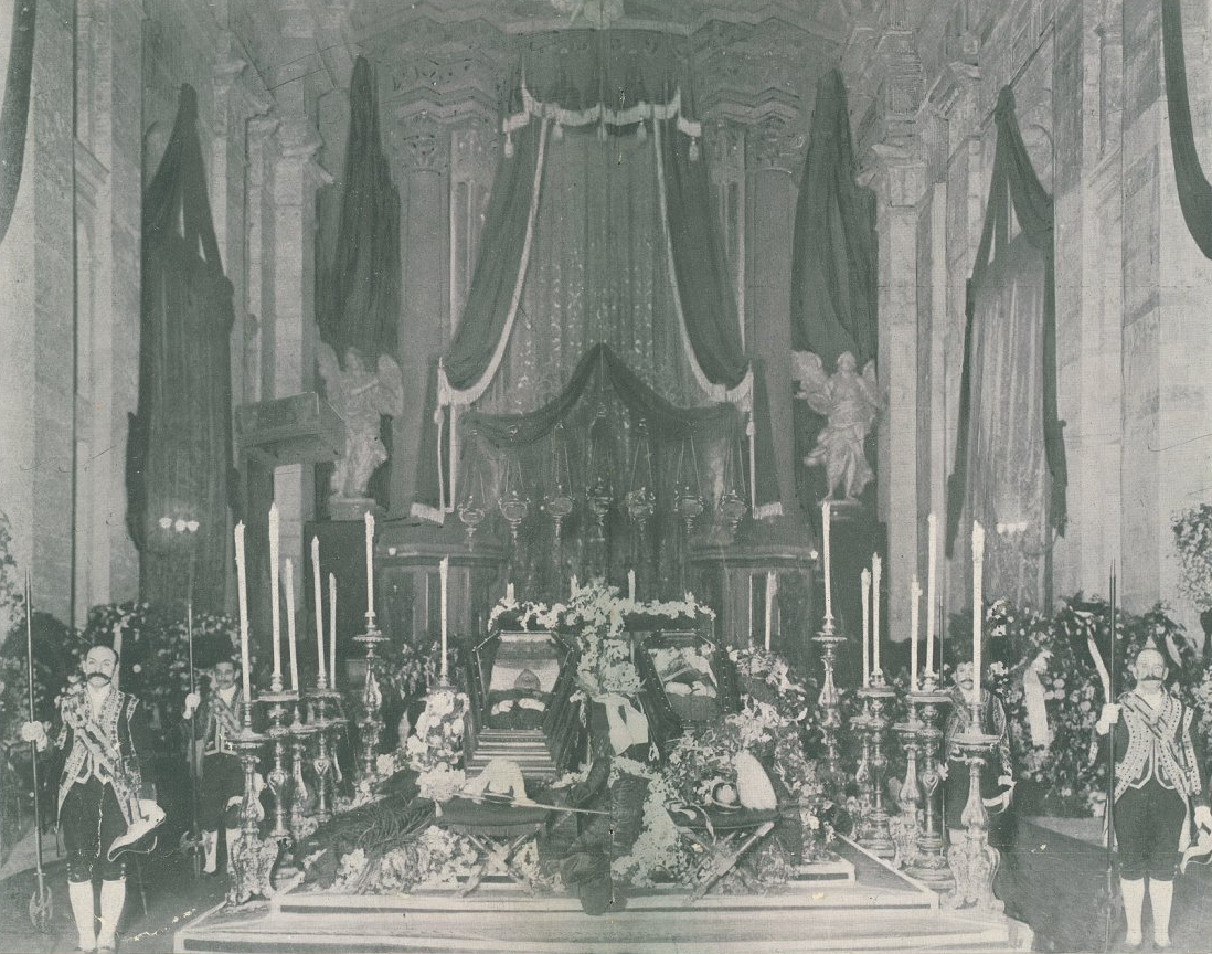 Lying in state of King Charles I and his heir apparent D. Luís Filipe, after the Lisbon Regicide (8 February, 1908).